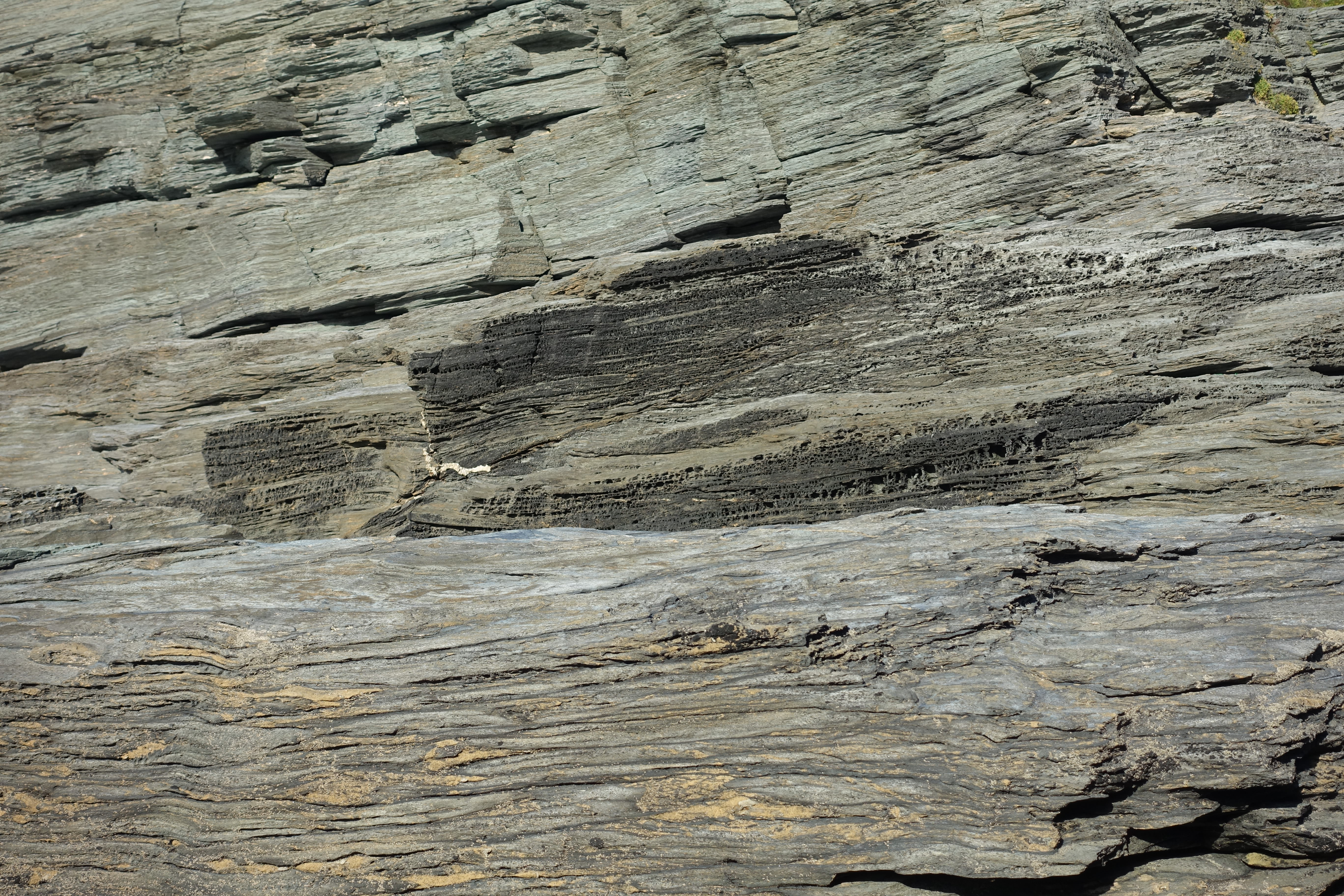 Slate wall at Trebarwith Strand, Cornwall